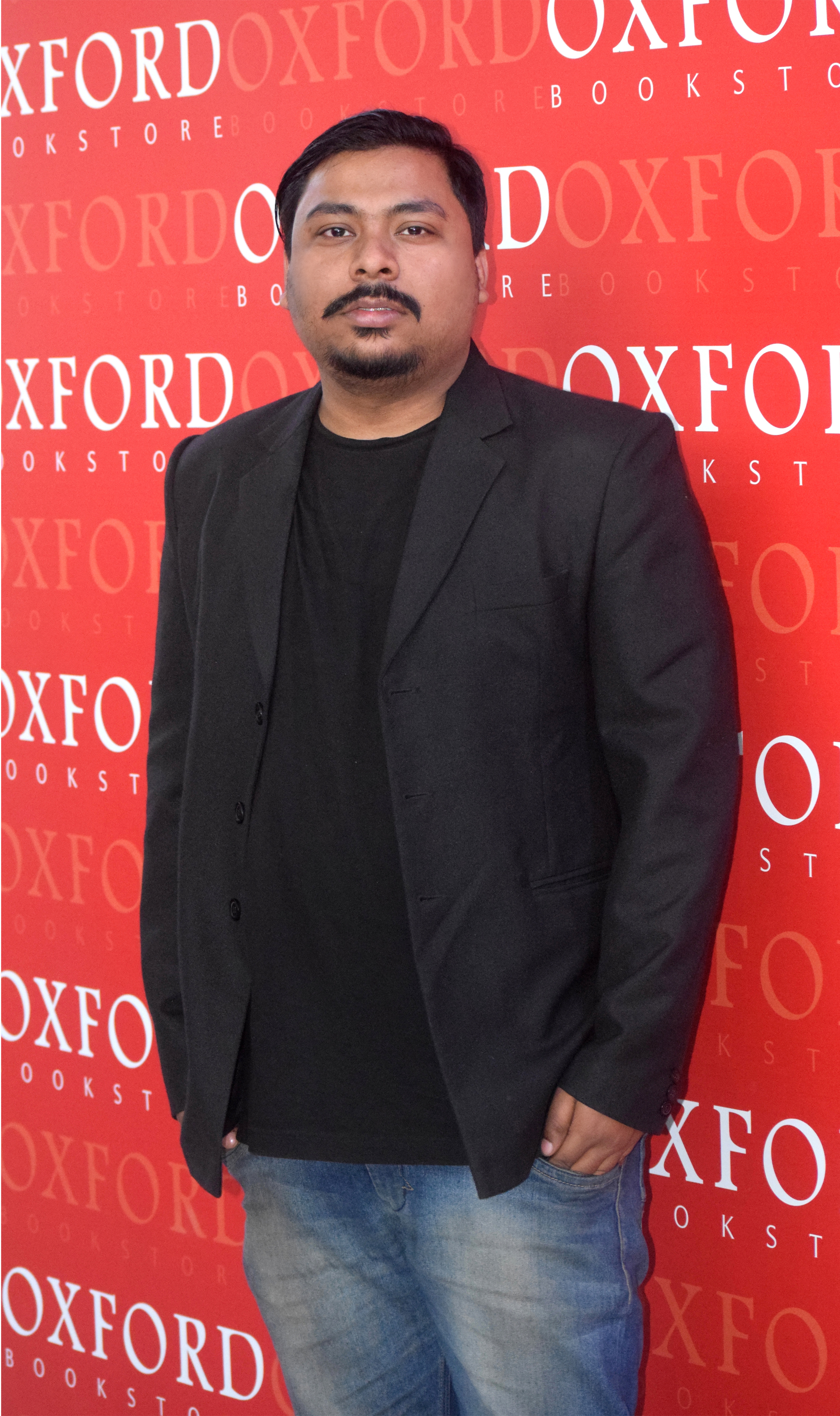 This is an image of author Ajitabha Bose at Oxford.